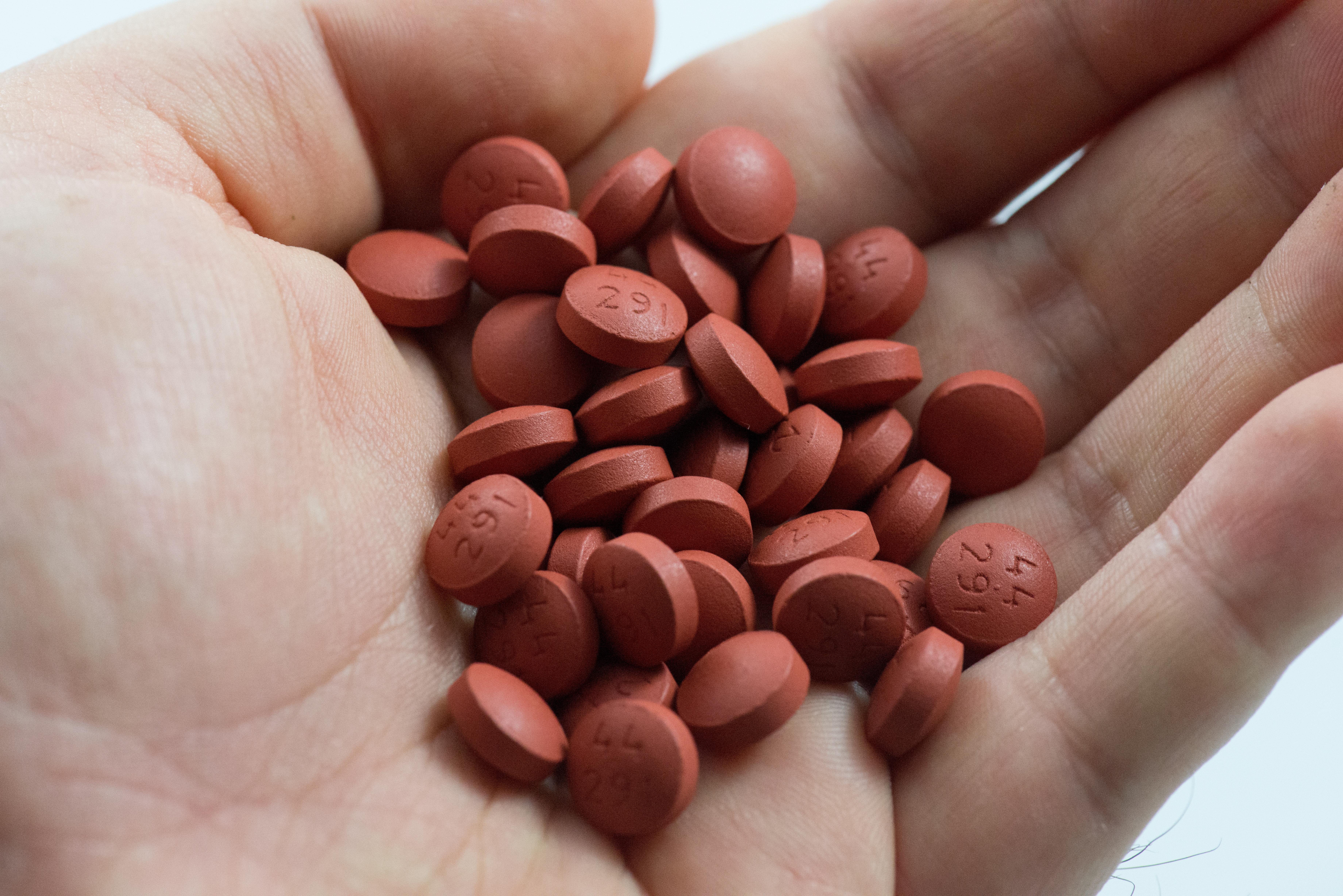 Generic Safeway tablets, 200 mg.